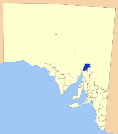 Map of South Australia showing the location of the Flinders Ranges Local Government Area. A modification of GDFL map by Astrokey44; found here: File:SA_LGA_blank.png